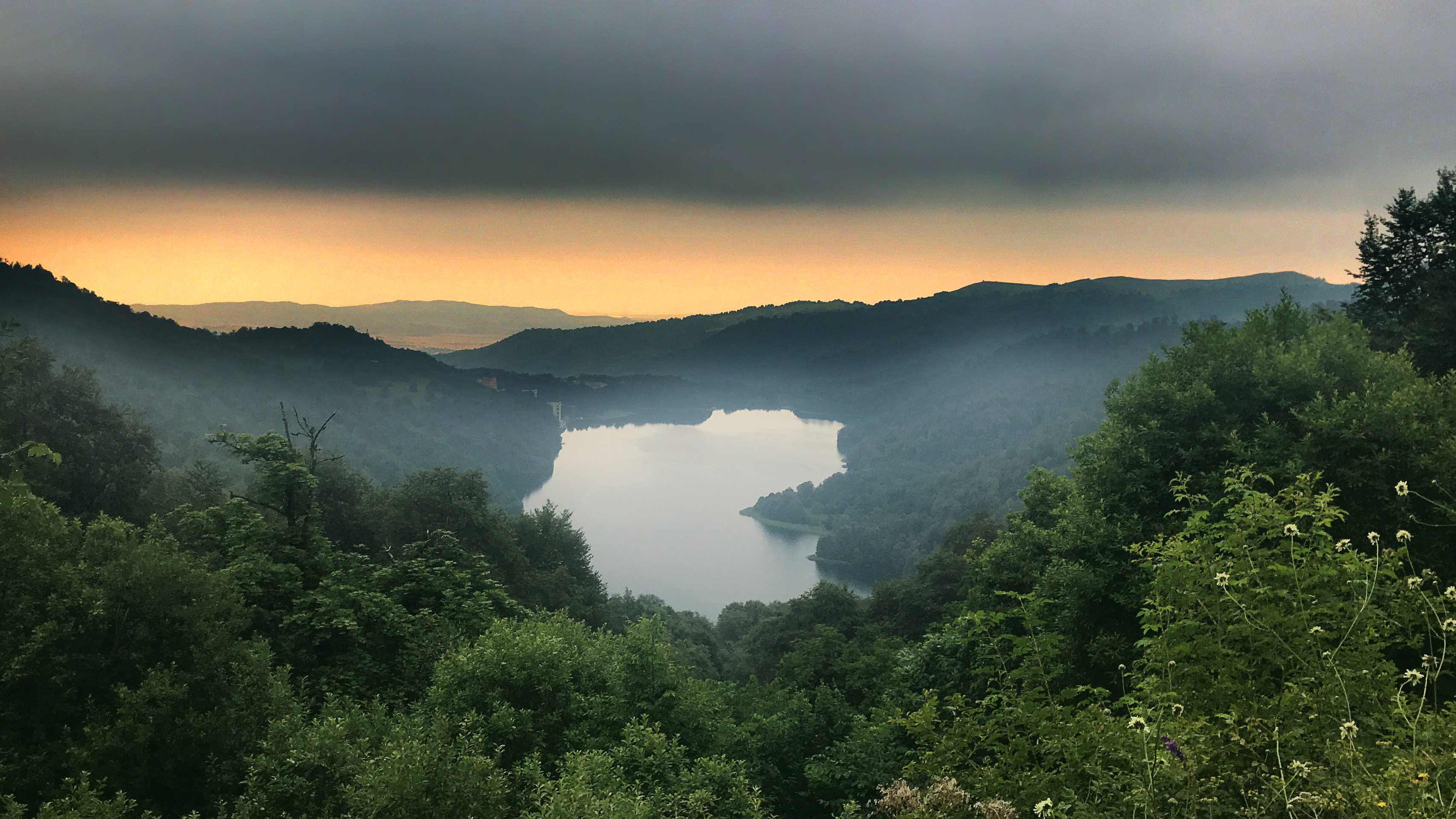 Goygol Lake in Goygol National Park